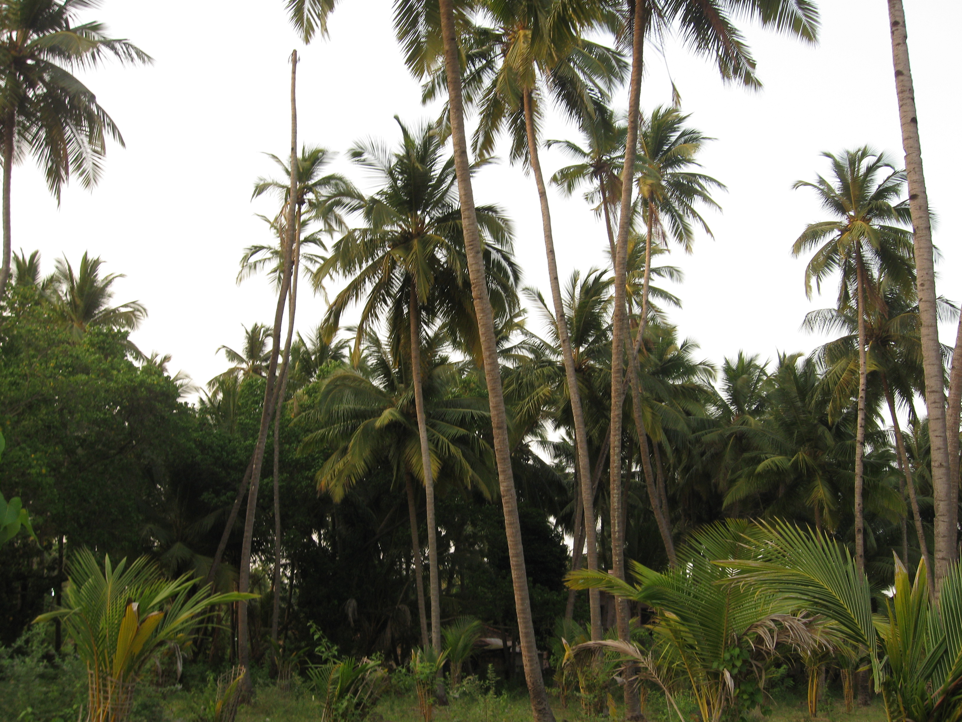 Coconut Trees in Goa